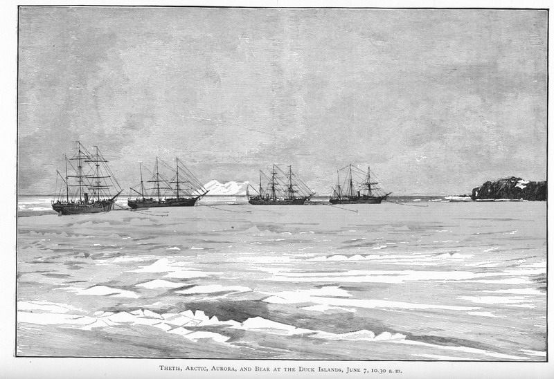 Thetis, Arctic , Aurora , and Bear at the Duck Islands, June 7, 10:30 a.m.